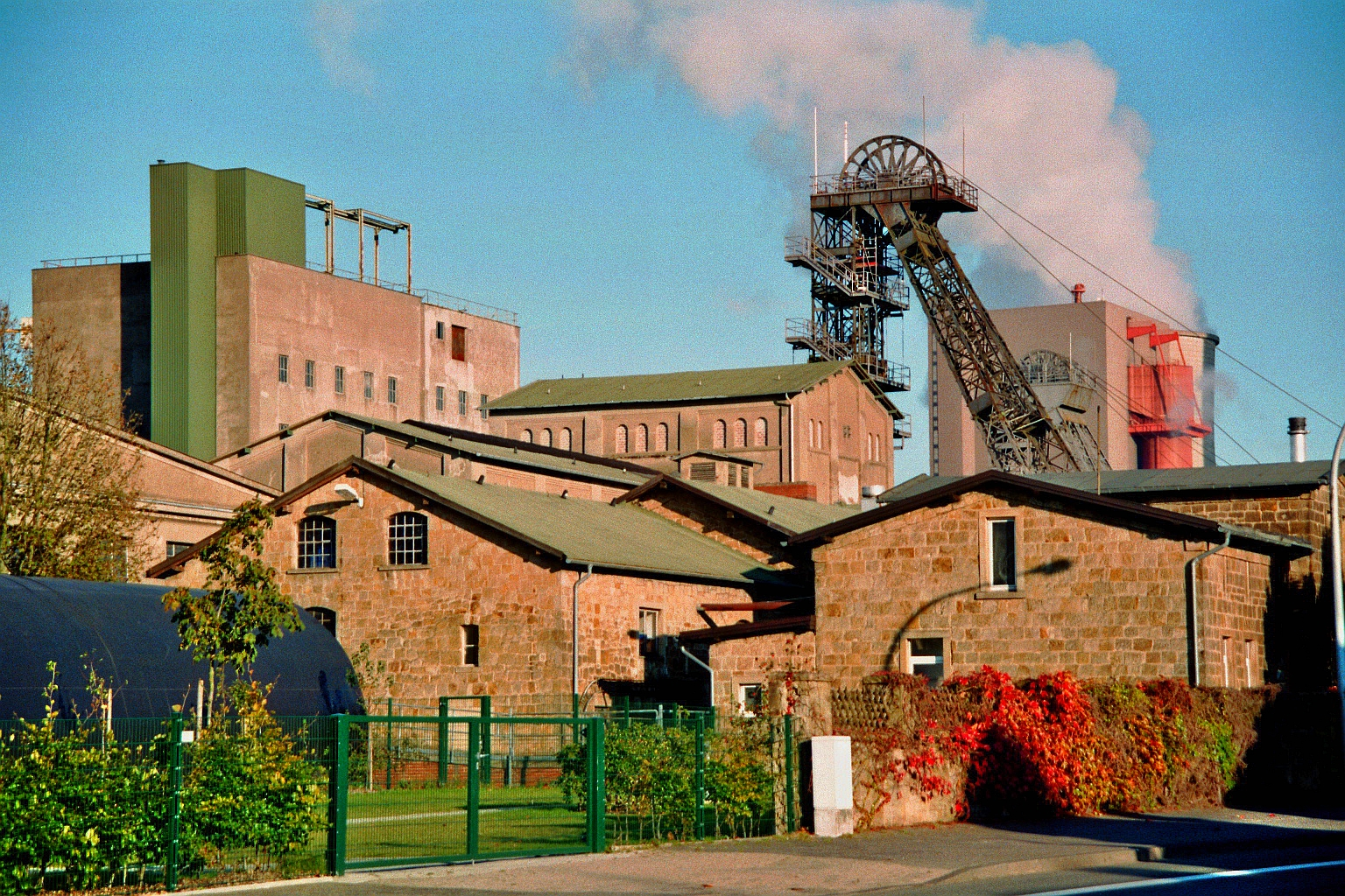 The coal mine (Von-Oeynhausen-Schacht) of the RAG Anthrazit Ibbenbüren GmbH and in the background the RWE power plant in Ibbenbüren, Kreis Steinfurt, North Rhine-Westphalia, Germany.